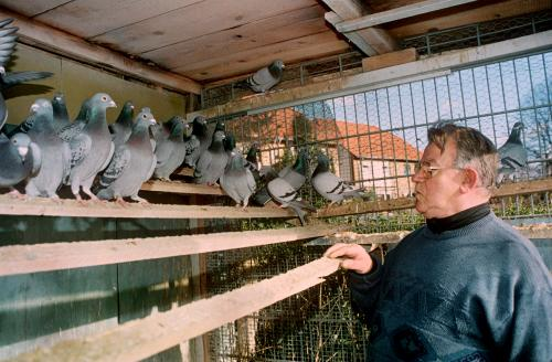 Pigeon fancier